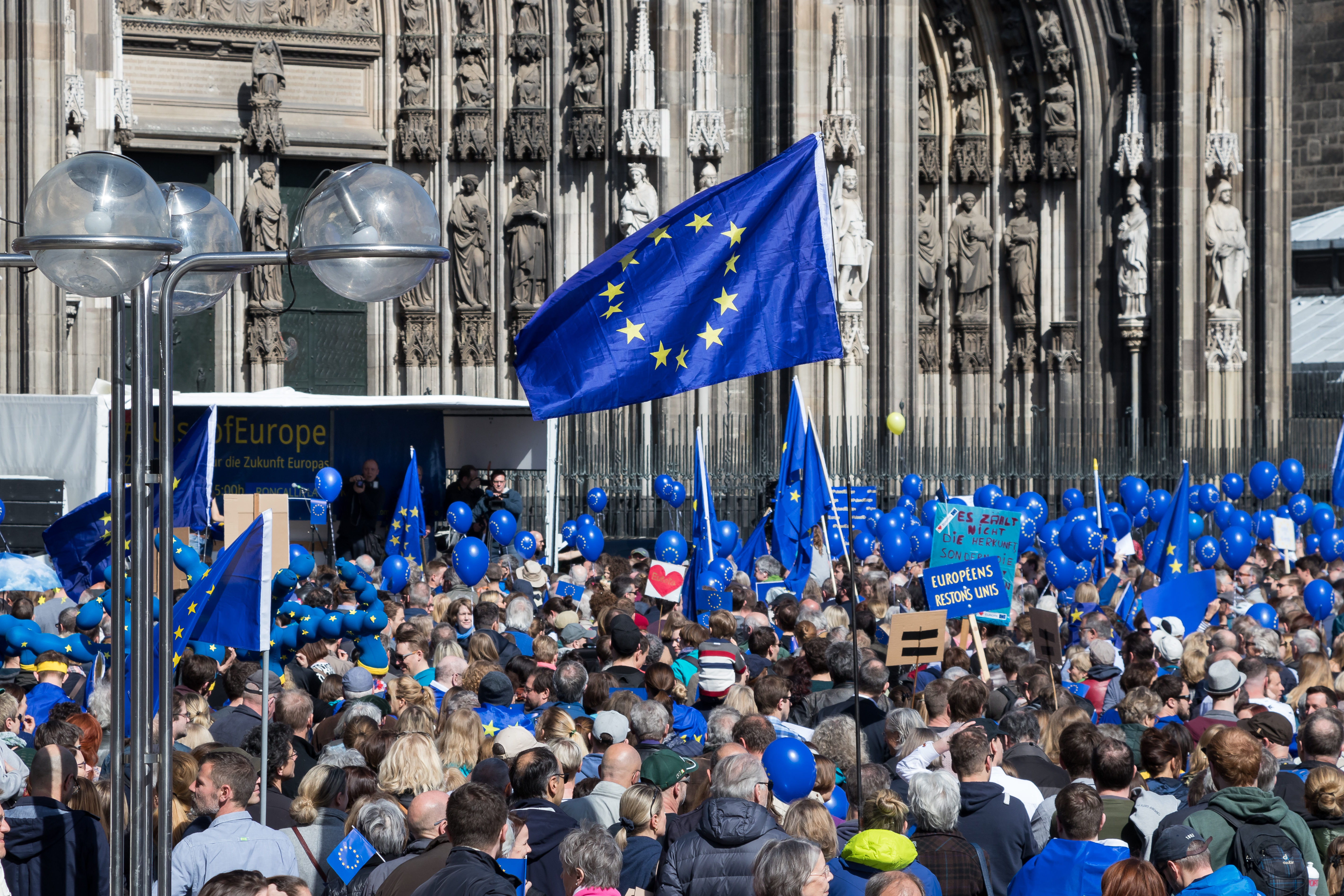 Pulse of Europe Cologne at Sunday, March 26th 2017